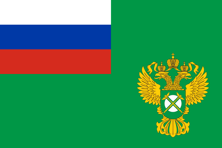 Flag of Federal Antimonopoly Service, Russia